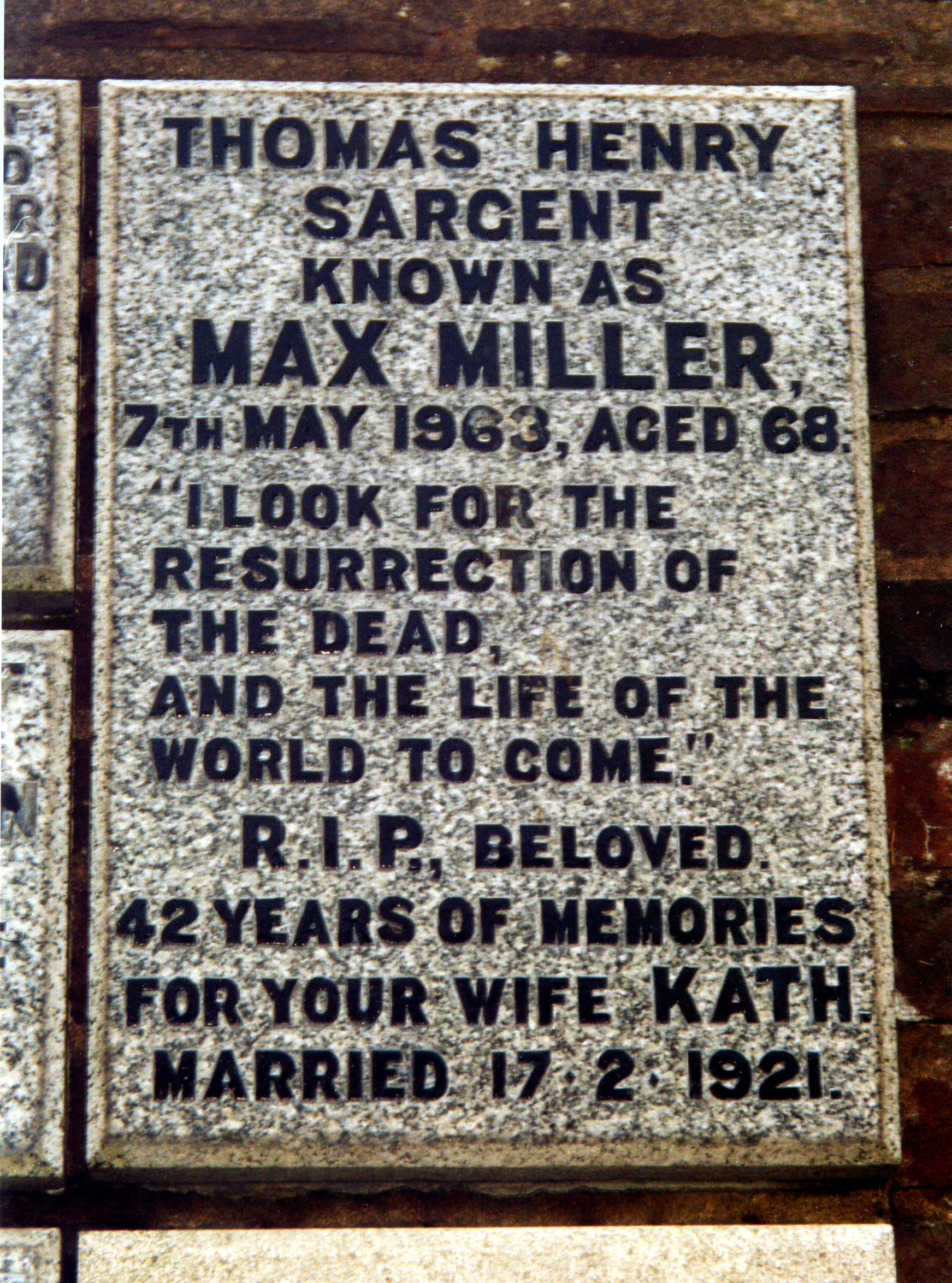 Image of Max Miller's memorial tablet affixed to wall in the Garden of Remembrance in the Downs Crematorium, Brighton